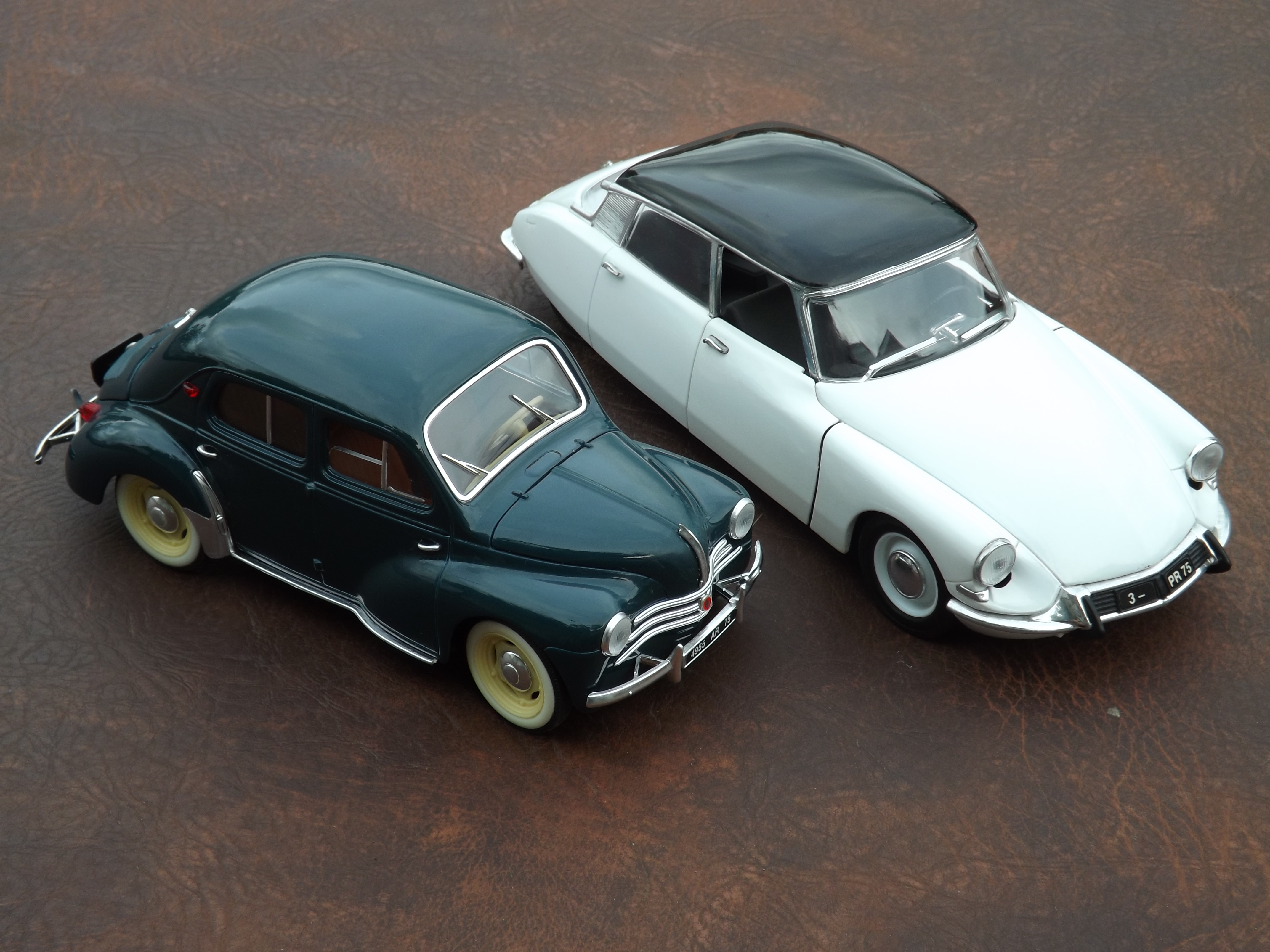 Two all-time classic 1950s French cars!